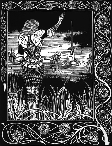 How Sir Bedivere Cast the Sword Excalibur into the Water. Illustration from: Sir Thomas Malory, Le Morte d'Arthur. London: Dent, 1894.